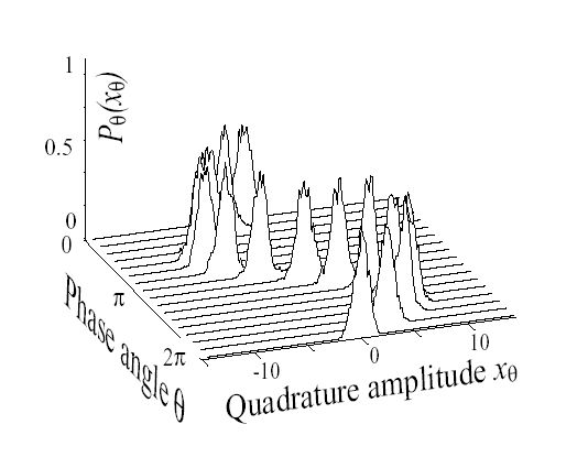 measured moving wave packet of a coherent state